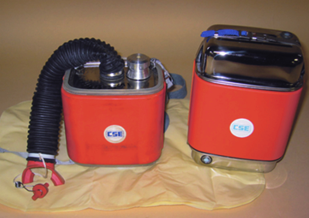 A photo of two CSE Corporation SR-100 self-contained self-rescuer (SCSR) devices in the opened (left) and unopened (right) states. The original photo was retouched by the Wikimedia Commons user Gazebo.